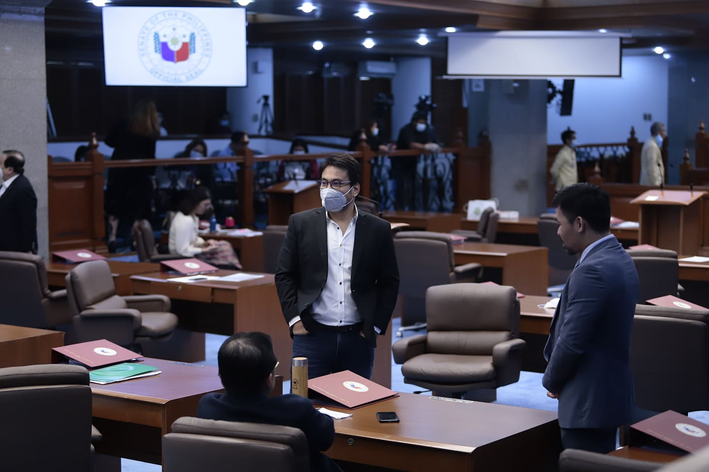 Senators convene for a special session on Monday (March 23, 2020), to tackle a bill authorizing President Rodrigo Duterte to exercise additional powers necessary to address the coronavirus disease 2019 (Covid-19) situation in the country. Senate Bill No. 1418, titled "Bayanihan to Heal as One Act," was approved on Tuesday (March 24, 2020) by all 12 senators who were physically present in the plenary.